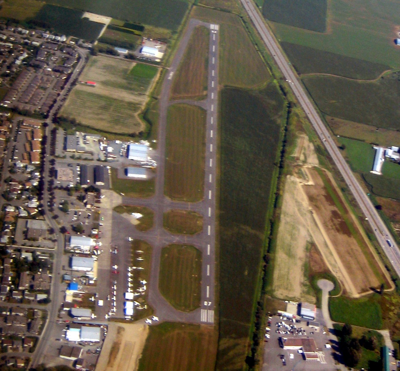 Chilliwack Airport – where one flies for pie! Overhead view from the east.